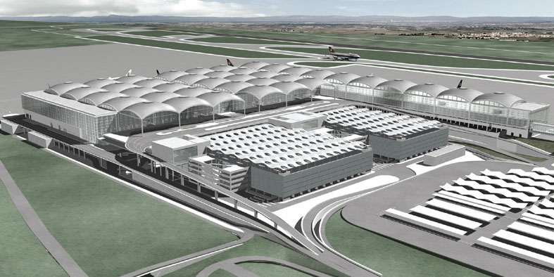 New Area Terminal (Alicante Airport)